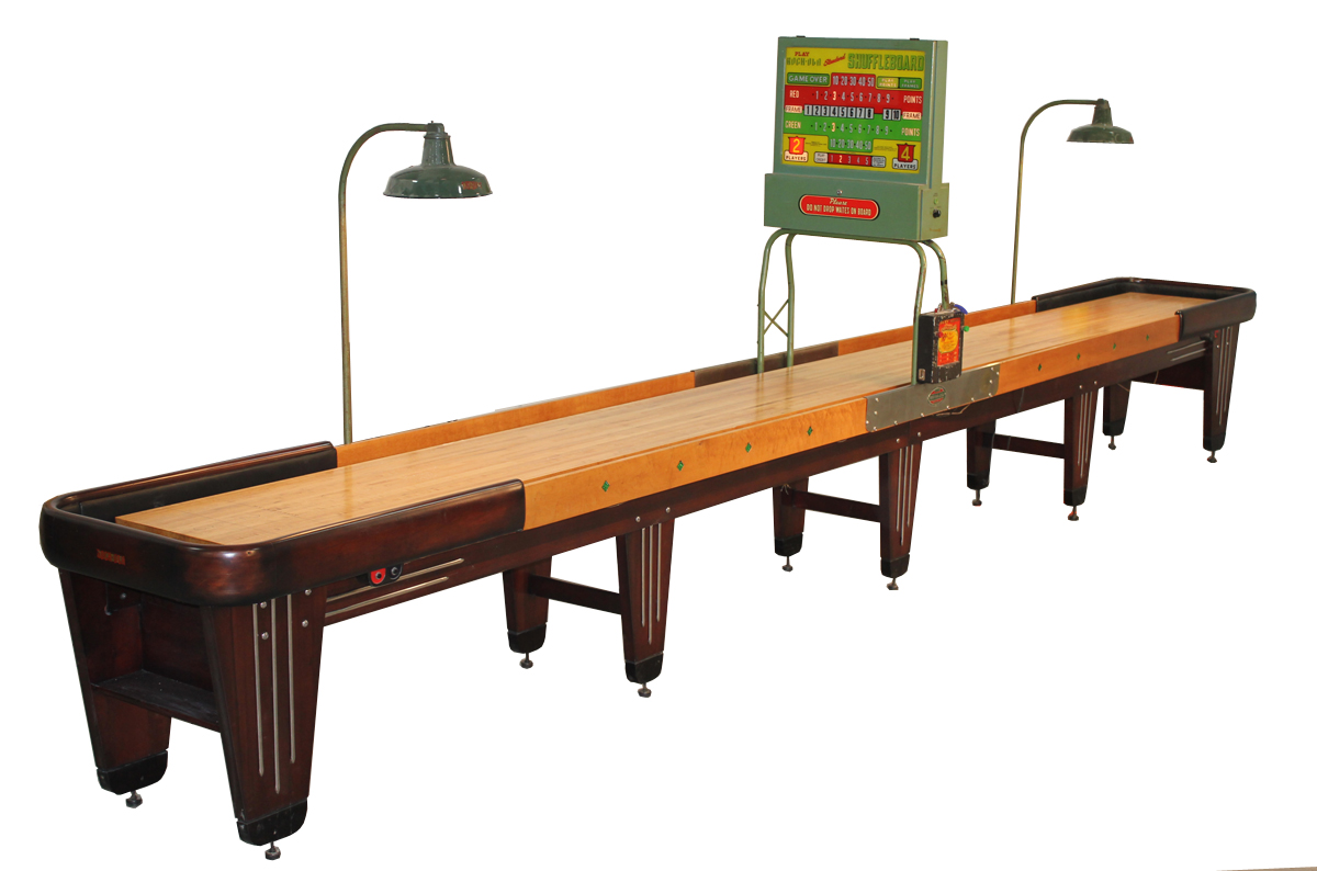 Antique Rock Ola Shuffleboard Table made in 1948 and 1949 fully restored by McClure Shuffleboard Tables